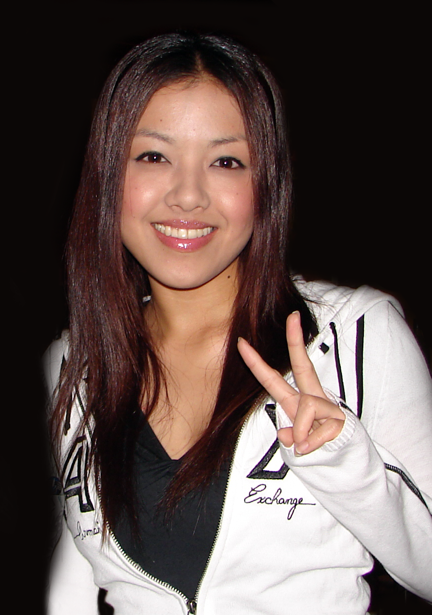 Photo of Yuna Ito, taken on June 2, 2006 at Aki-no-No in Honolulu, Hawaii. Photo taken and edited by groink.